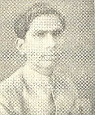 M. Ayyakkannu. Photo taken in 1957 at the latest